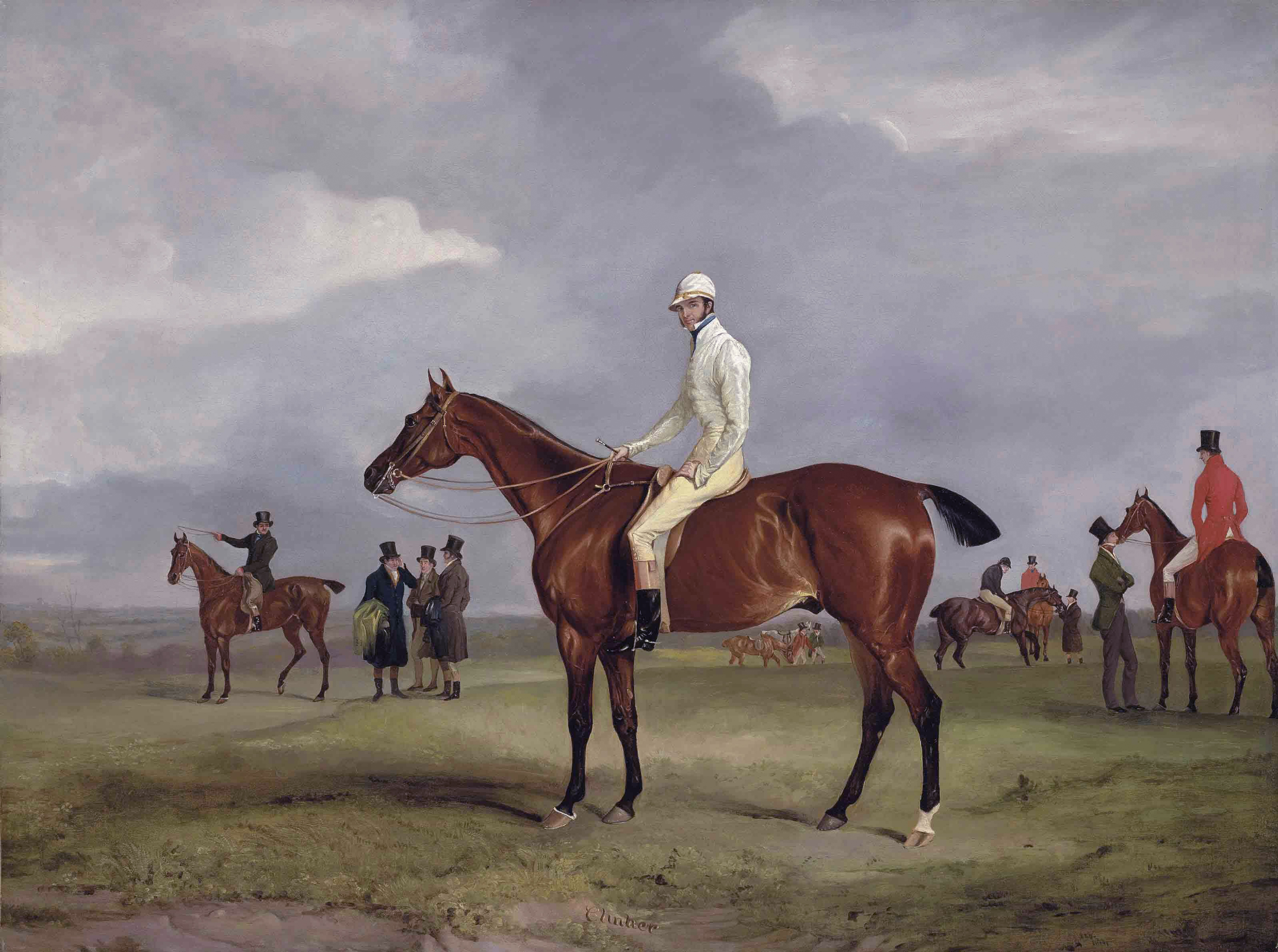 Clinker with Captain Horatio Ross up, Radical with Captain Douglas up beyond inscribed Clinker (l.c.)